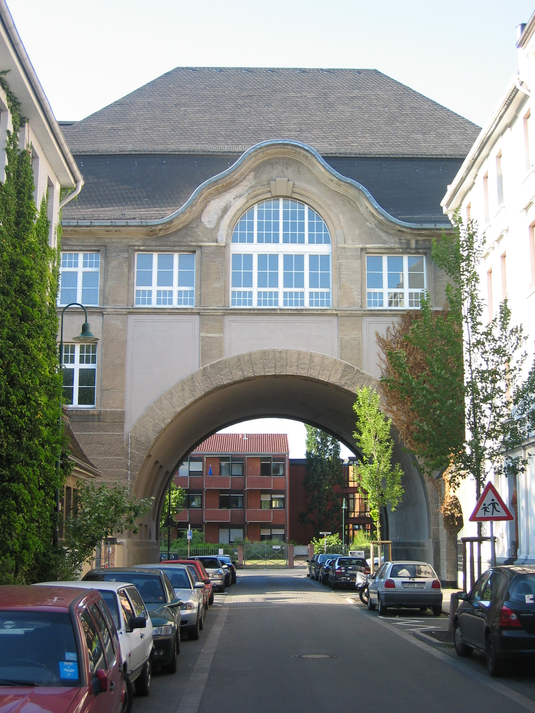 Kyritz School in Darmstadt, Germany; Architect August Buxbaum. Building above the portal is actually a gymnasium (in the British sense) - very cool, having sports above the street like that, though as a kid one doesn't really appreciate it.